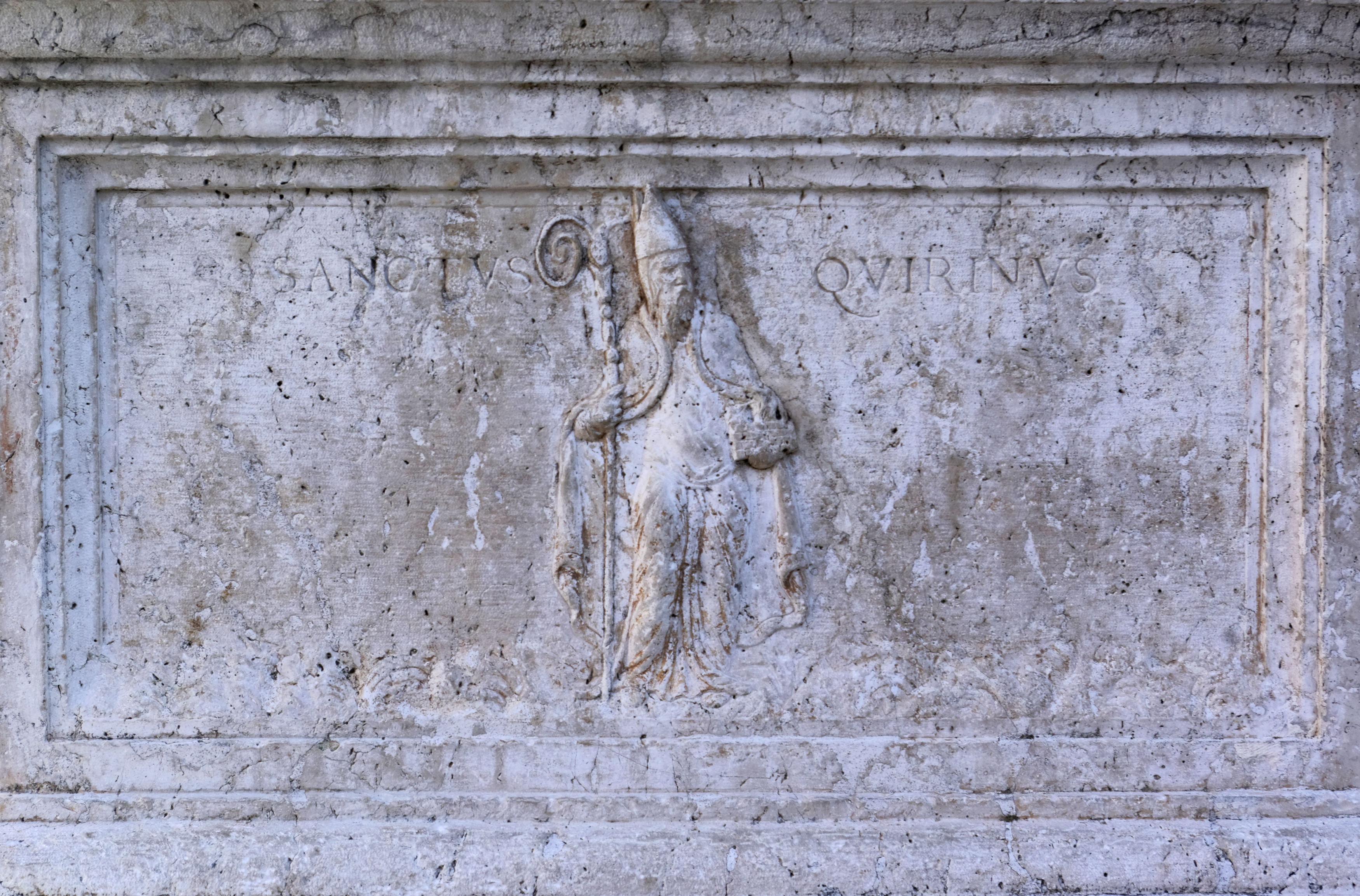 Croatia, Krk, relief St Quirinius at the market well